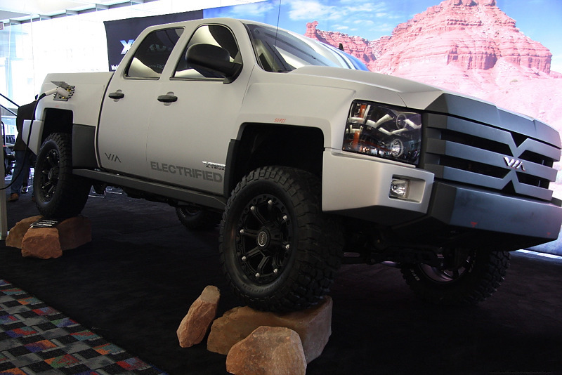 NAIAS 2013 Detroit: Electric Cars / Foto: M. Rittgerott_____________ Please feel free to use this image for FREE under the Creative Commons (CC) licence. However, if you use the image, pls set a backlink to and give credit as following: "Image: ". Thanks For highres images or any other inquiries pls contact mailto: .